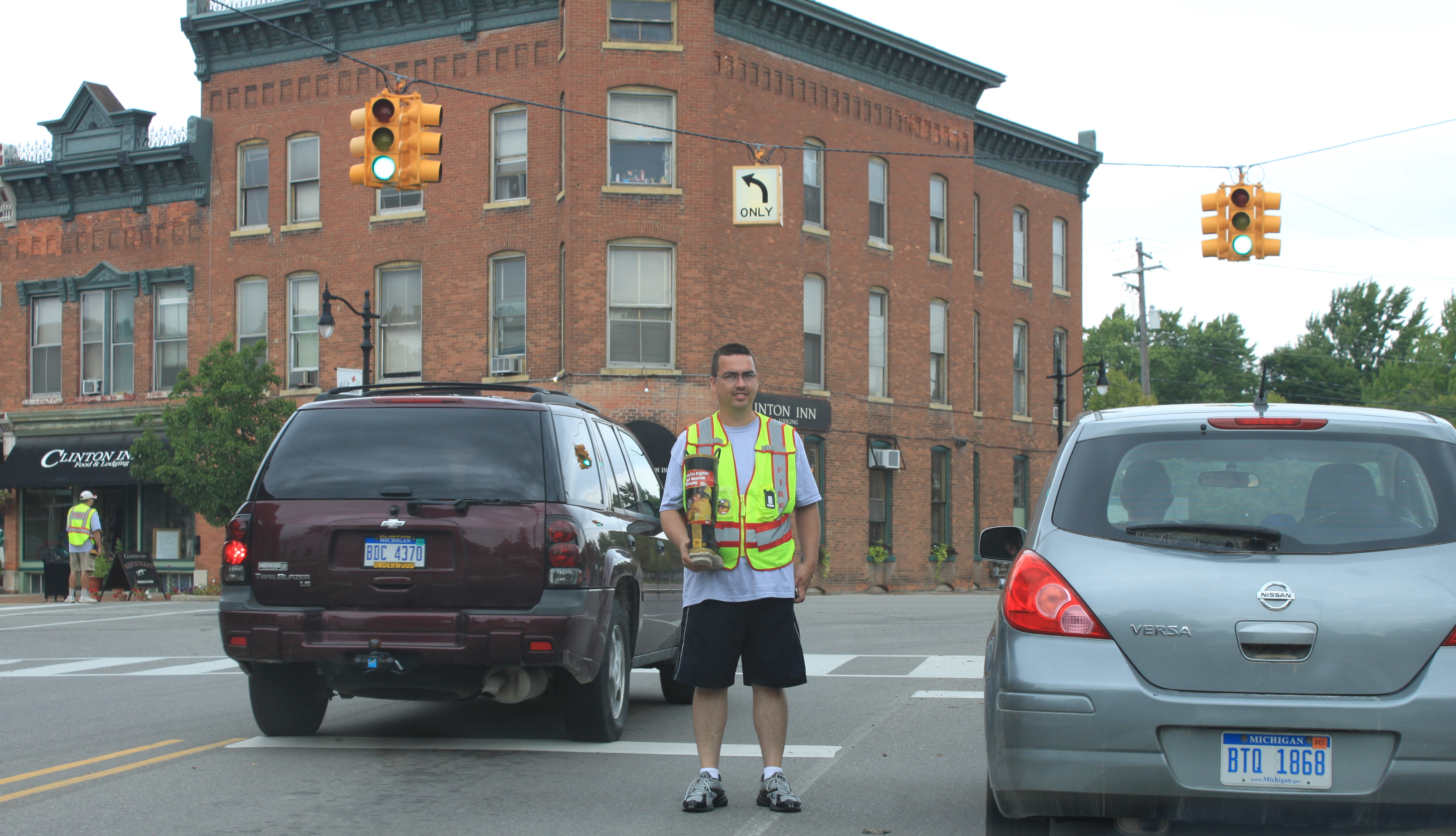 Fire fighters raising money for the Muscular Dystrophy Associaton, Labor Day weekend, Michigan Avenue at Tecumseh Road, Clinton, Michigan.